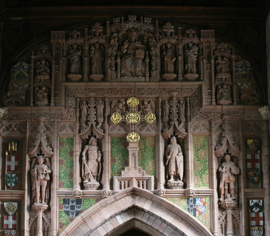 The Buller Memorial in Crediton Parish Church, in memory of General Sir Redvers Buller (1839-1908) VC, GCB, GCMG, of Downes House in the parish of Crediton. He married Lady Audrey Jane Charlotte Townshend (d.1926), a daughter of John Townshend, 4th Marquess Townshend. The arms of Buller are shown at left; the arms of Buller impaling Townshend (quartering de Vere) are shown at right. Shown at left (top to bottom) are the arms of: Exeter, Plymouth: Argent, a saltire vert between four castles sable, Penzance, Southampton; Shown at right (top to bottom) are the arms of Redruth, Worshipful Company of Goldsmiths, Worshipful Company of Carpenters, Worshipful Company of Skinners. (